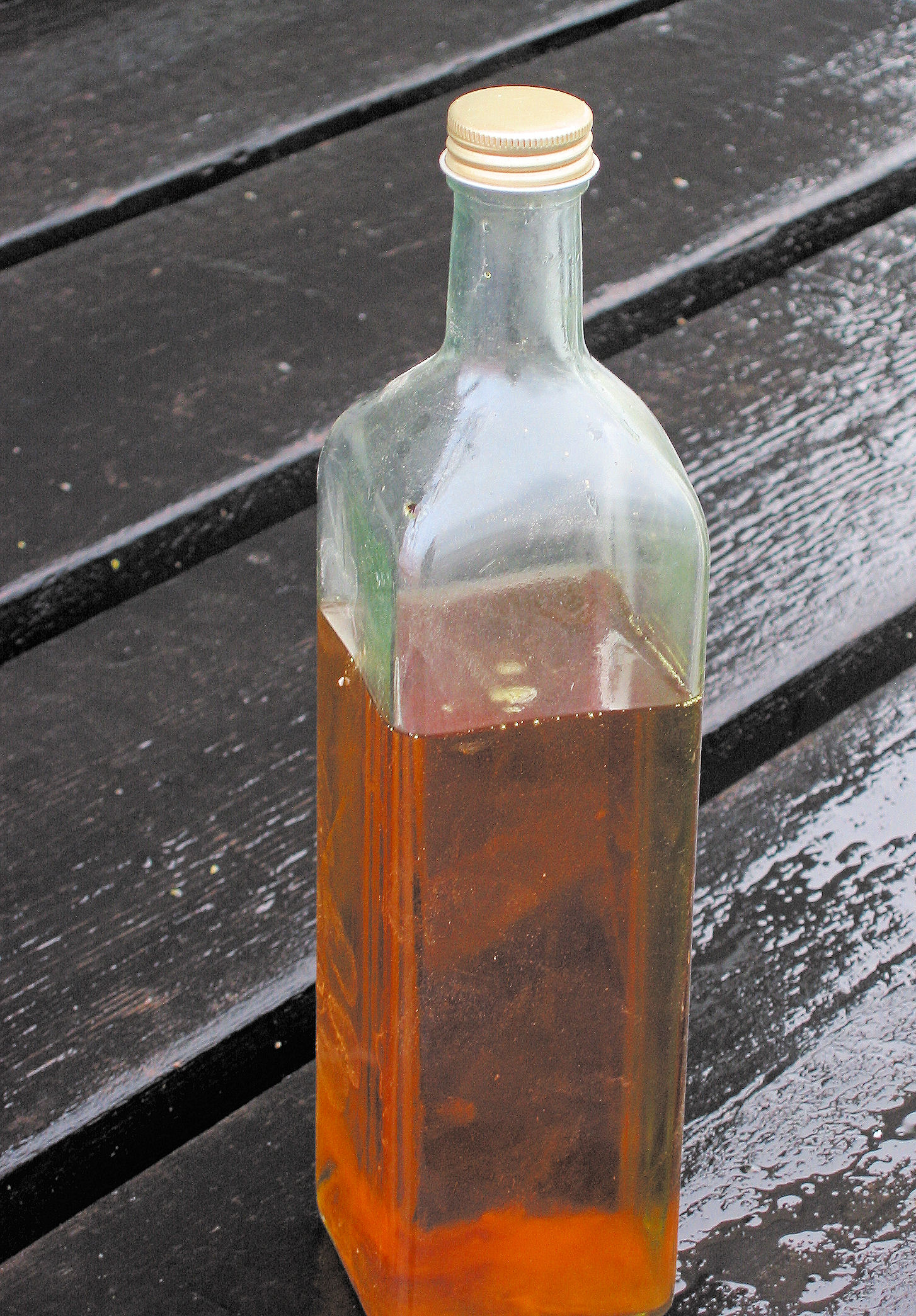 Linseed oil